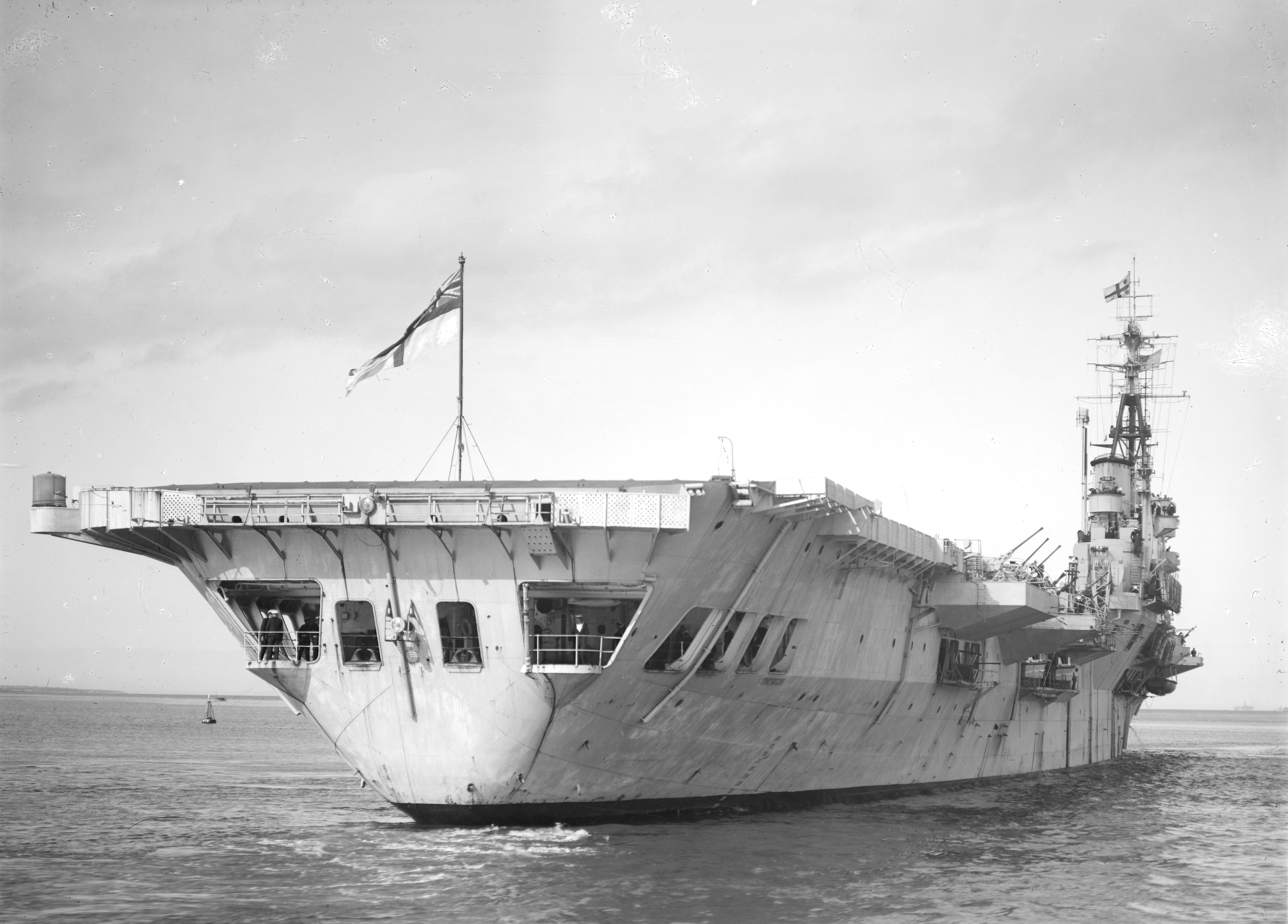 HMS Theseus (R64) includes tug Euro with the ship.